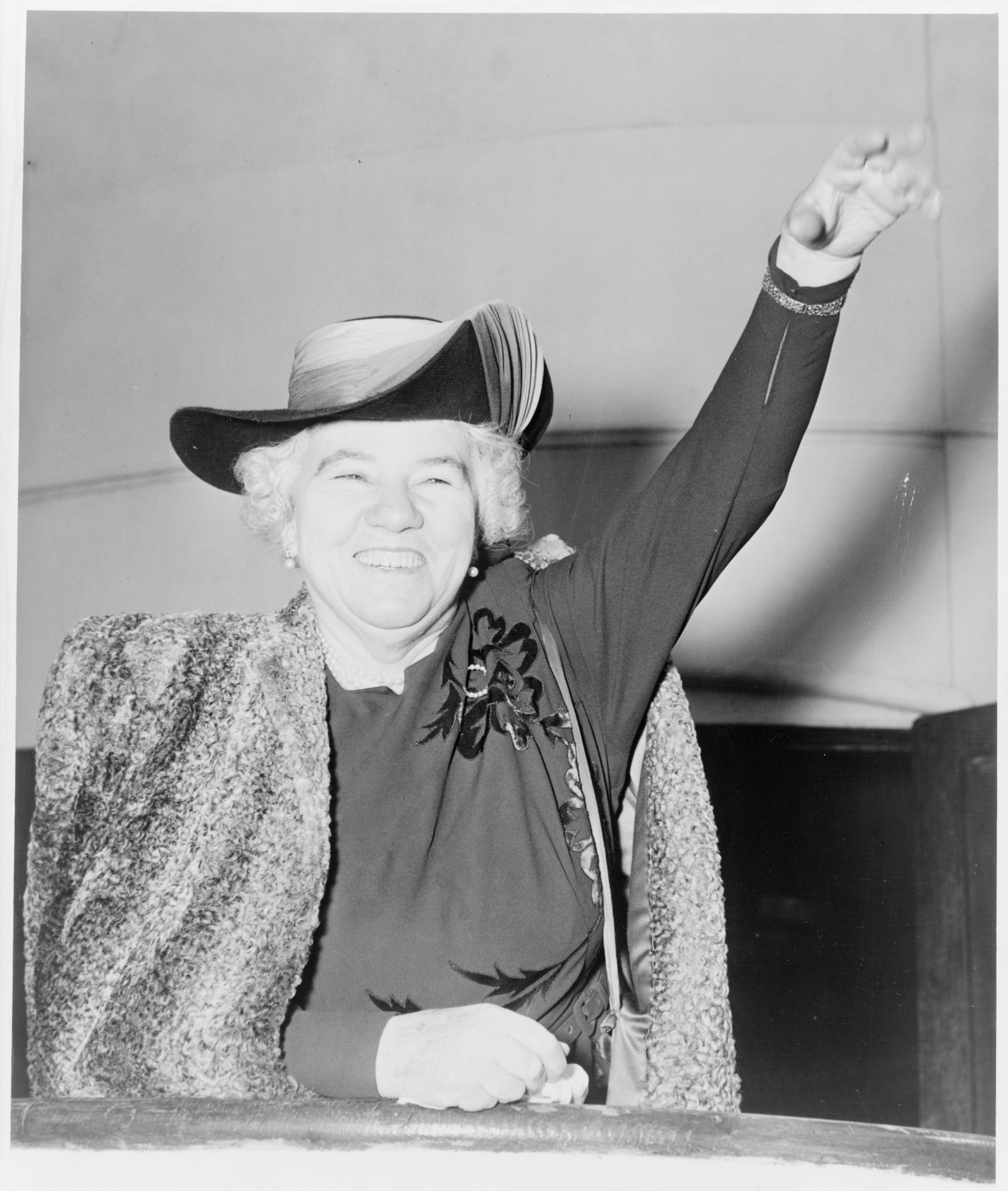 Elizabeth Kenny, half-length portrait, facing front, waving from the Queen Mary / World Telegram & Sun photo by Al Ravenna.